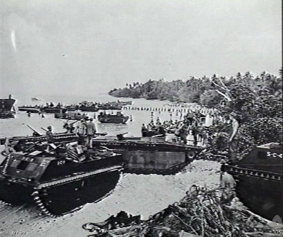 EMIRAU, ST MATTHIAS GROUP. Supplies and equipment being brought ashore from landing craft to support the US Marine landing force. The vehicles nearest the camera are Landing Vehicle Tracked (unarmoured) Mark I and those immediately behind are Landing Vehicle Tracked (unarmoured) Mark II. Other vehicles of both types are ferrying supplies ashore in the distance while a chain of men stretches from a landing craft to the shore to manhandle supplies to the beach.